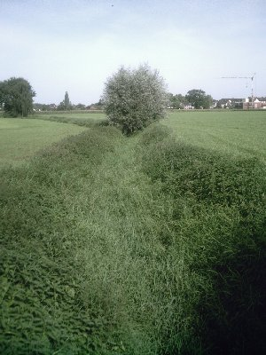 The Flöthbach creek near Anrath-Flöthhof, Germany.